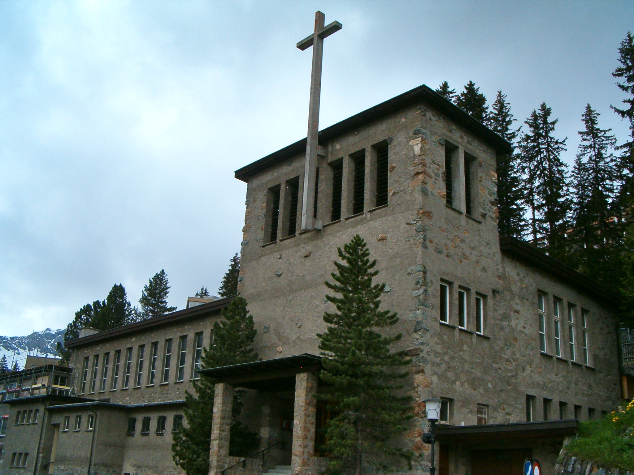 Catholic Church in Arosa/Switzerland